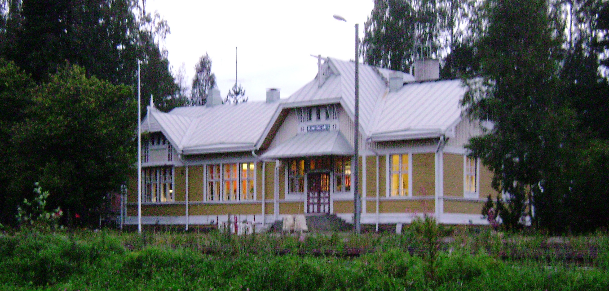 Kontiolahti railway station.